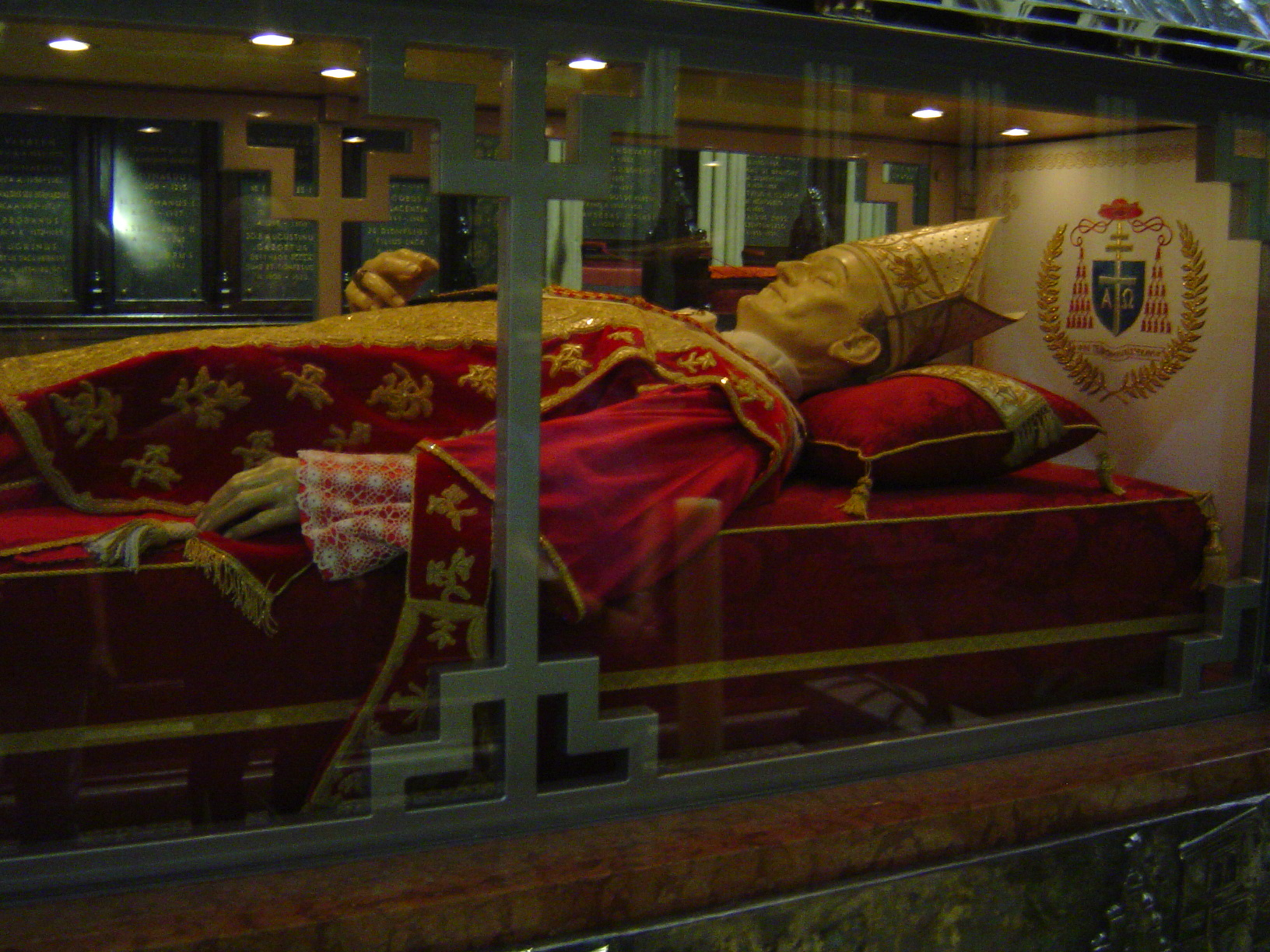 Zagreb Cathedral - tomb of Cardinal Alojzije Stepinac